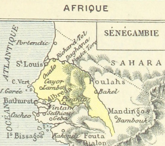 This map was taken from a larger image, whose details are below. The original image can be found at: Details from the parent image follow below: ----------------------------------------------------------------------- Image taken from: Title: "L'enseignement pratique de la géographie. Atlas, cartes, textes & questionnaires ... Cours móyen" Author: DUBON - Professeur d'Histoire et de Géographie, and LACROIX (Pierre Louis) Shelfmark: "British Library HMNTS 10002.h.4." Page: 33 Place of Publishing: E. Belin, Paris, Saint-Cloud [printed] Date of Publishing: 1878 Issuance: monographic Identifier: 000991830 Explore: Find this item in the British Library catalogue, 'Explore'. Download the PDF for this book (volume: 0) Image found on book scan 33 (NB not necessarily a page number) Download the OCR-derived text for this volume: (plain text) or (json) Click here to see all the illustrations in this book and click here to browse other illustrations published in books in the same year. Order a higher quality version from here.